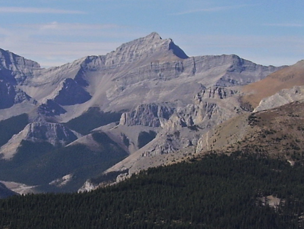 Fisher Peak seen from Nihahi Ridge in Kananaskis Country, Alberta Canada